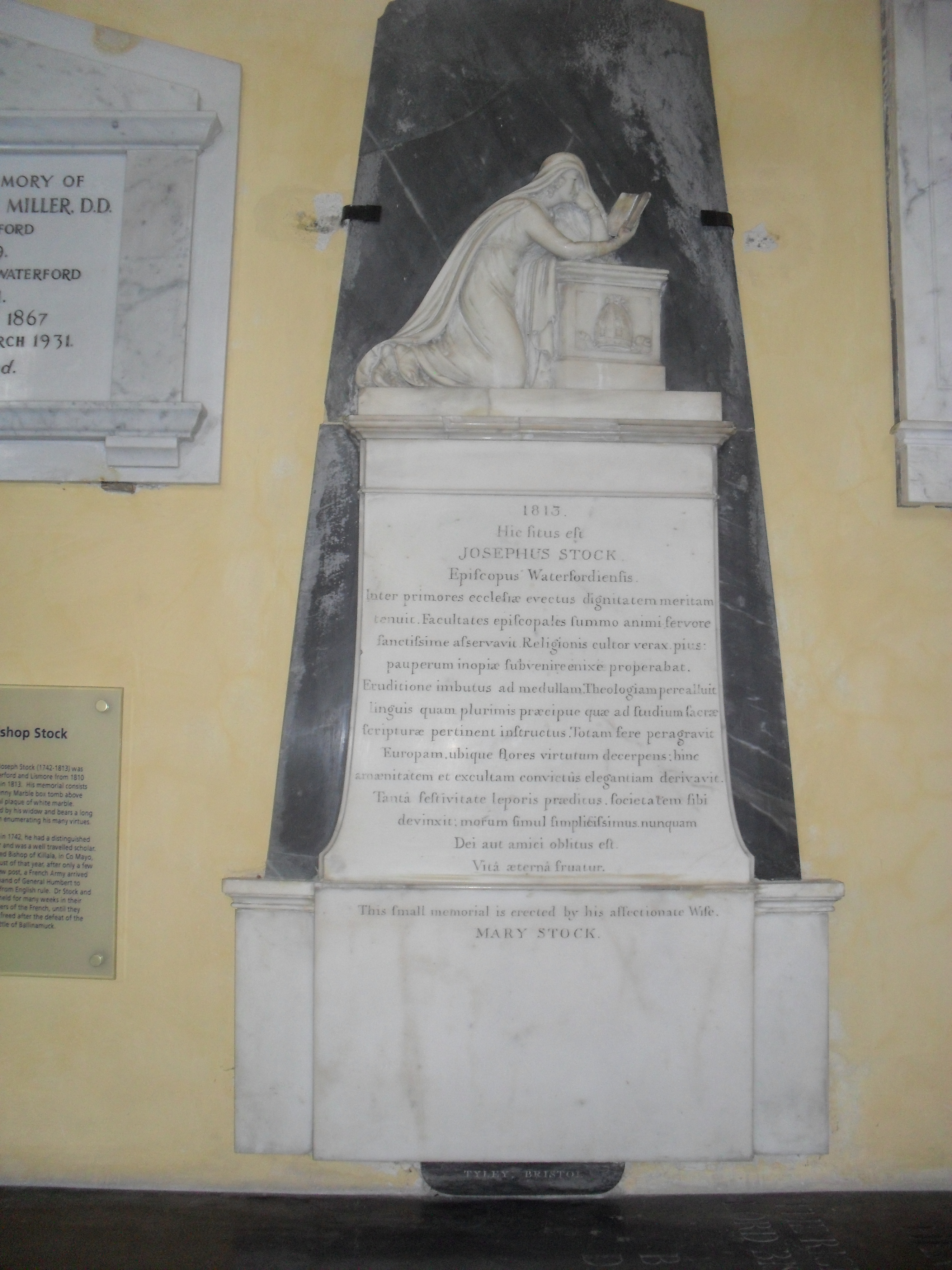 Memorial stone 23